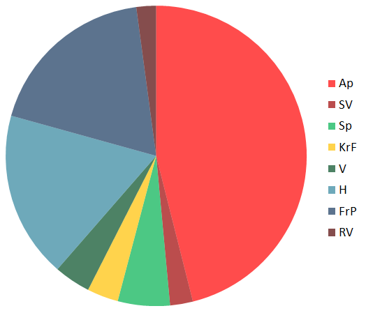 Election Kristiansund 2007